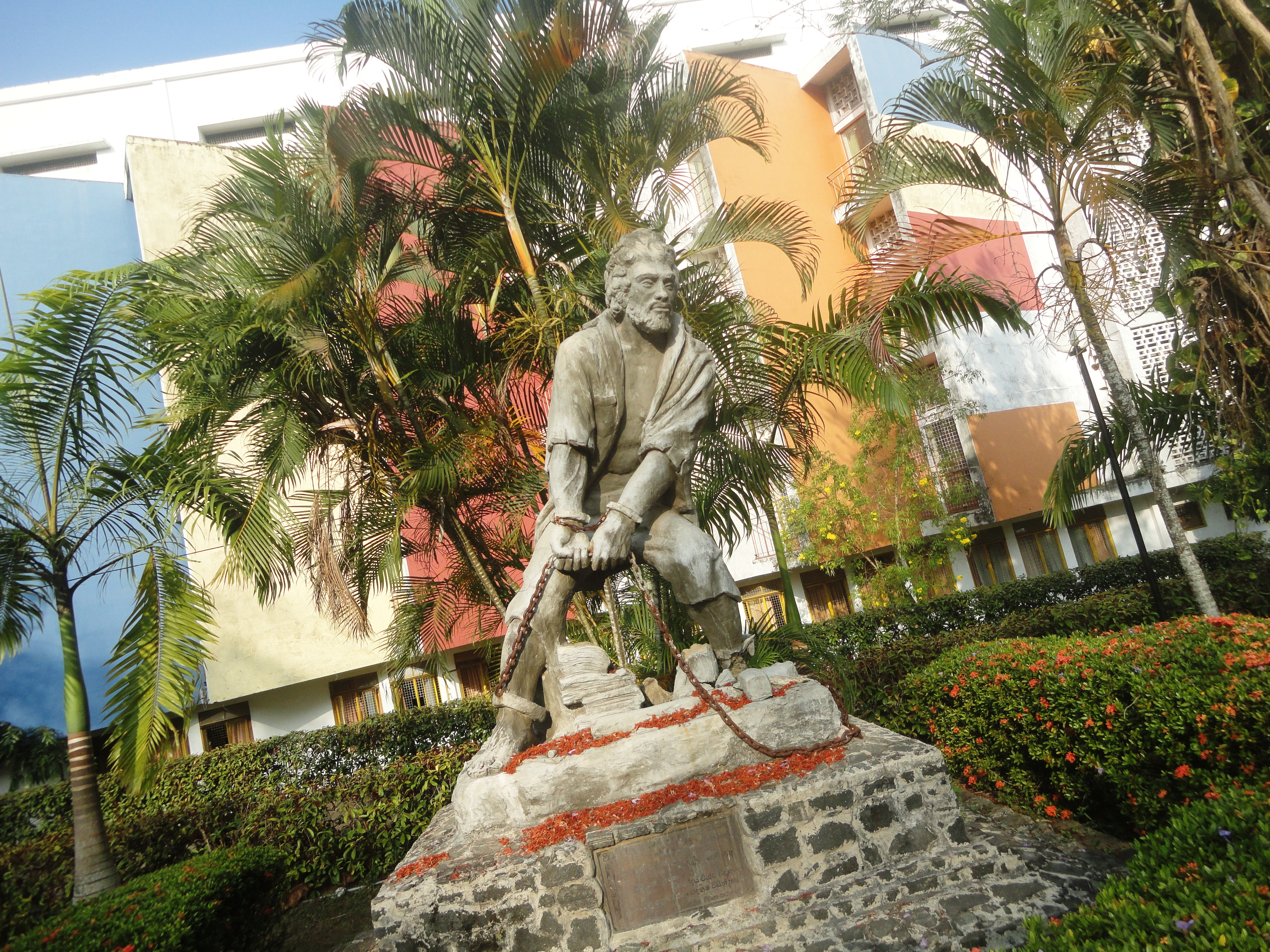 This is Students Hero Statue Sri Jayewardenepura University Sri Lanka